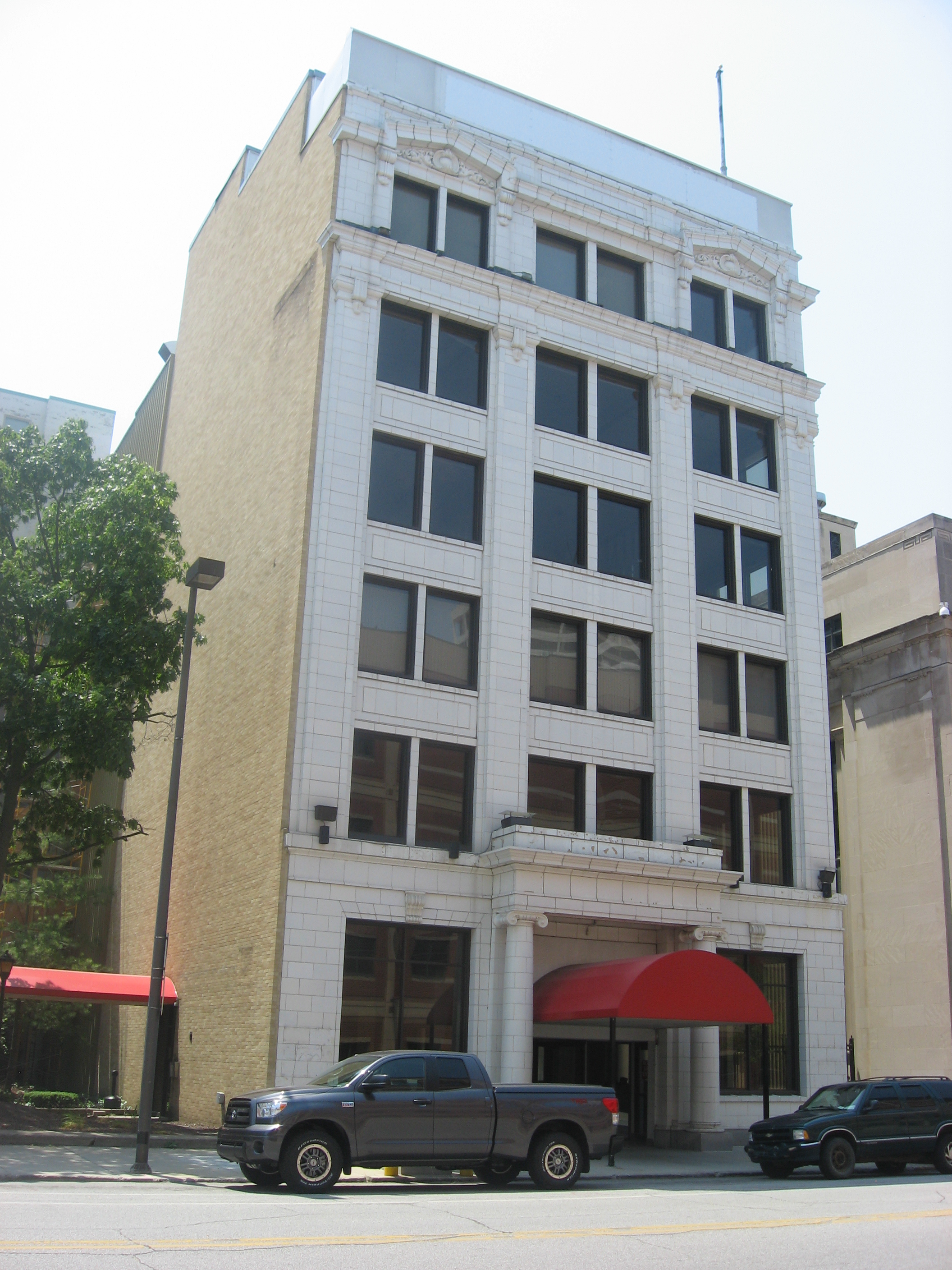 Front and eastern side of the Citizens Bank Building, located at 112 W. Jefferson Boulevard in South Bend, Indiana, United States. Built in 1913, it is listed on the National Register of Historic Places.